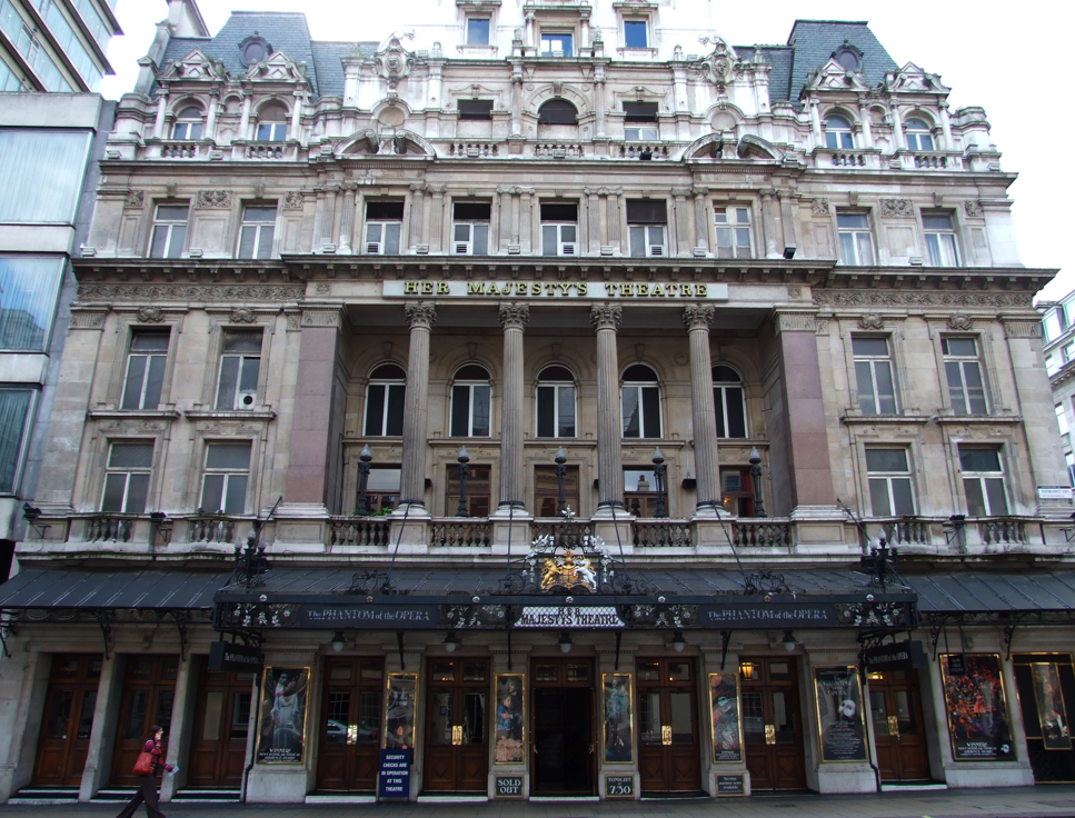 Her Majesty’s Theatre, London.